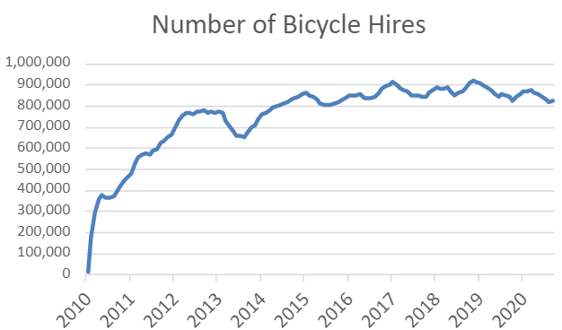 Number of hires of Santander bikes from June 2011 to May 2019 (annual rolling average).[1]